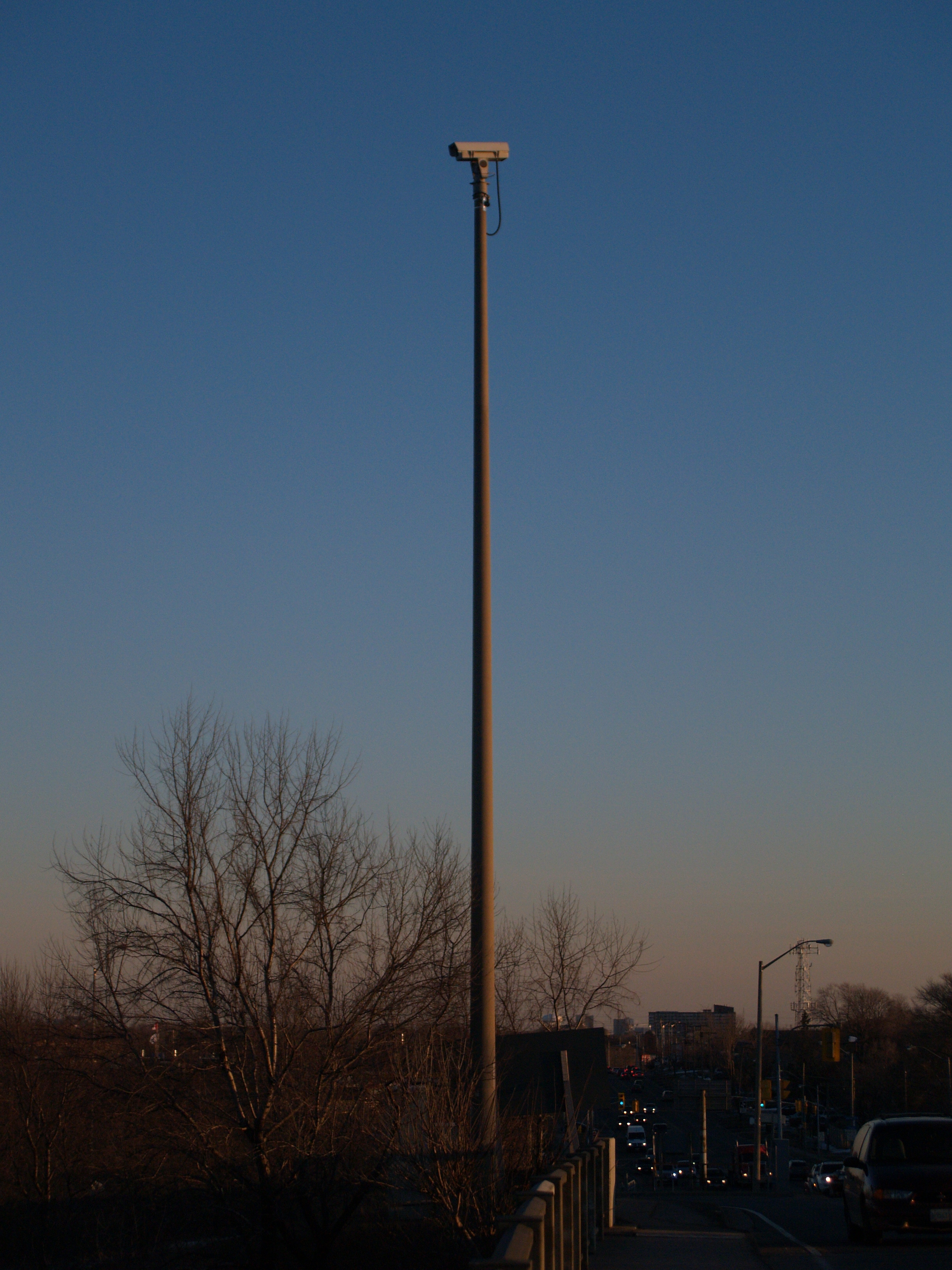 A CCTV camera on the southeast corner of the Warden Avenue overpass of Highway 401. The cameras are mounted on high poles all along the highway, and are used along with vehicle detectors in the pavement to provide traffic information on changeable message signs along the highway.